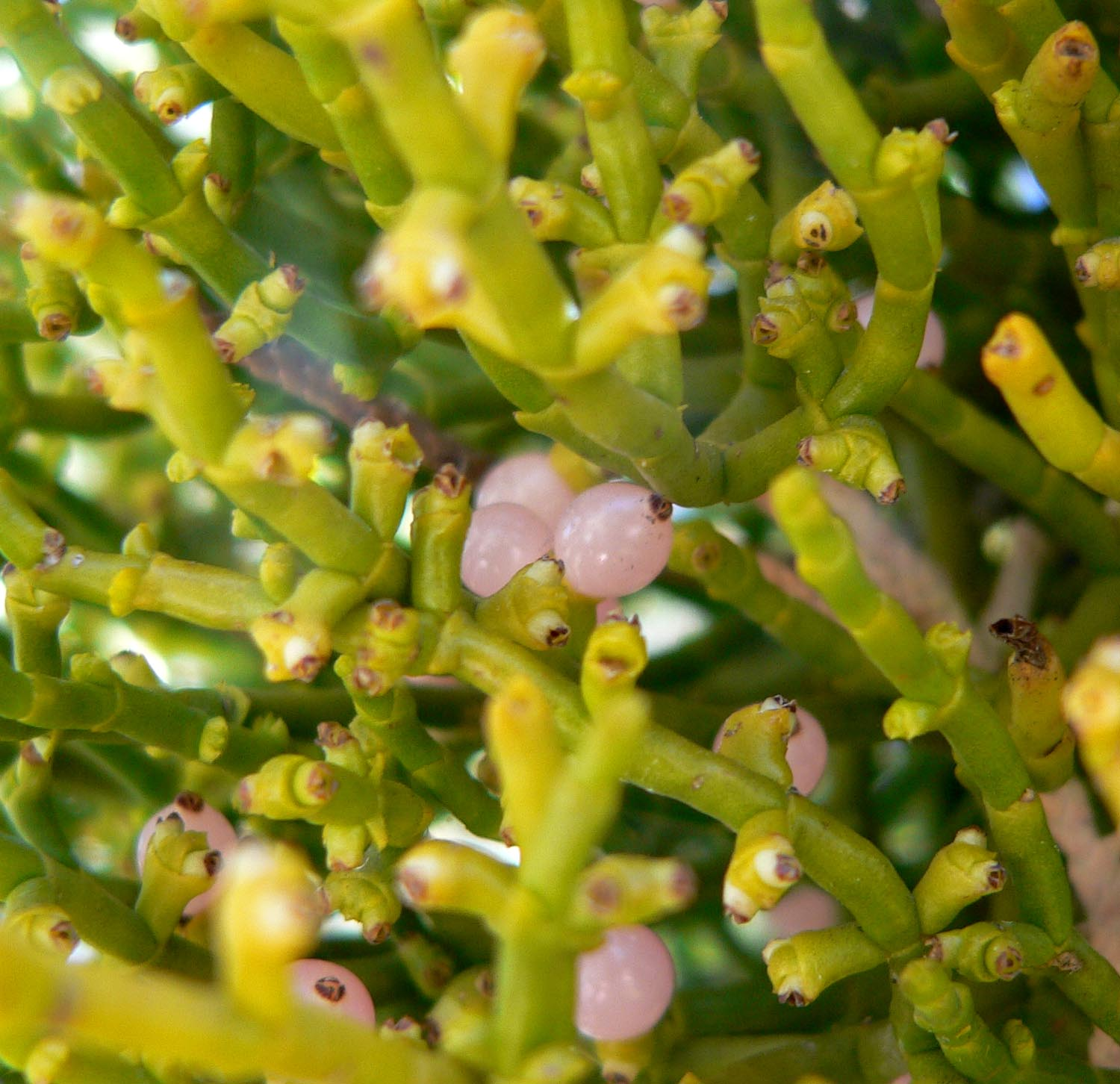 Photo of Phoradendron juniperinum (juniper mistletoe) in Red Rock Canyon, Nevada